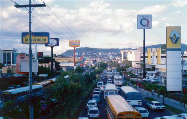 Ring road around Tegucigalpa, Honduras, close to Miraflores neighbourhood.